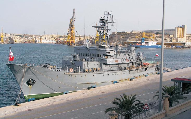 Polish practice ship ORP Wodnik (Project 888 Wodnik class)